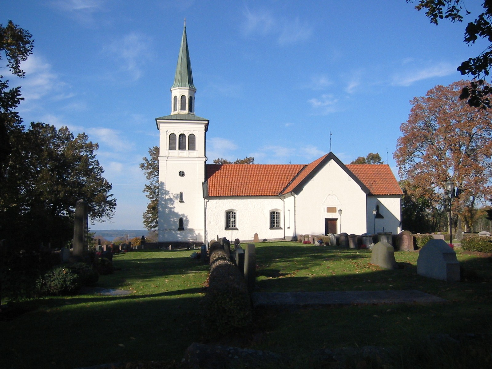 Marbäck Church